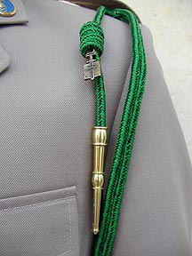 Fourragère in the colors of the ribbon of the Ordre de la Libération.